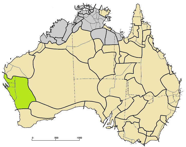 Kartu languages (green) among other Pama–Nyungan (tan). Wajarri is the southern and interior group.